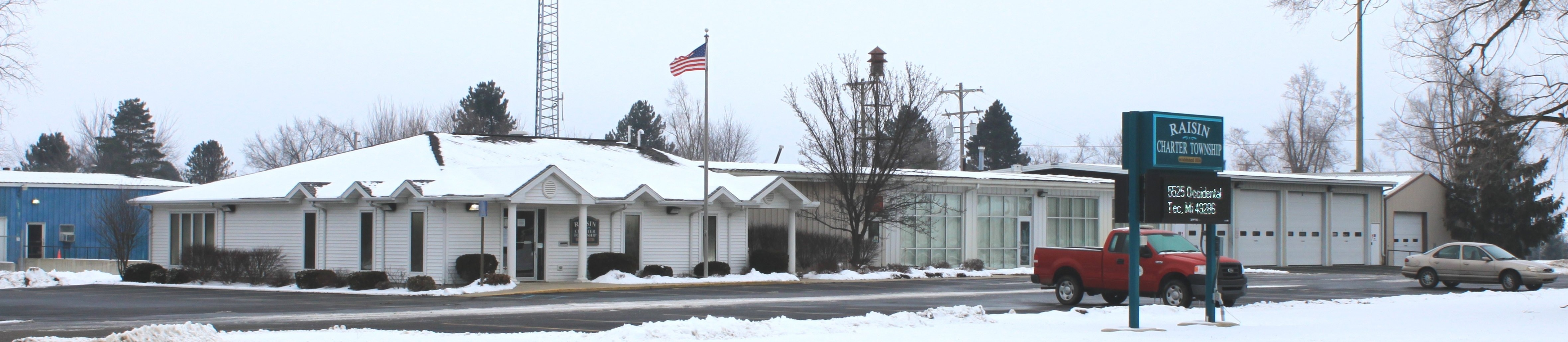 Raisin Township Hall, 5525 Occidental Highway, Raisin Township (Tecumseh), Michigan.